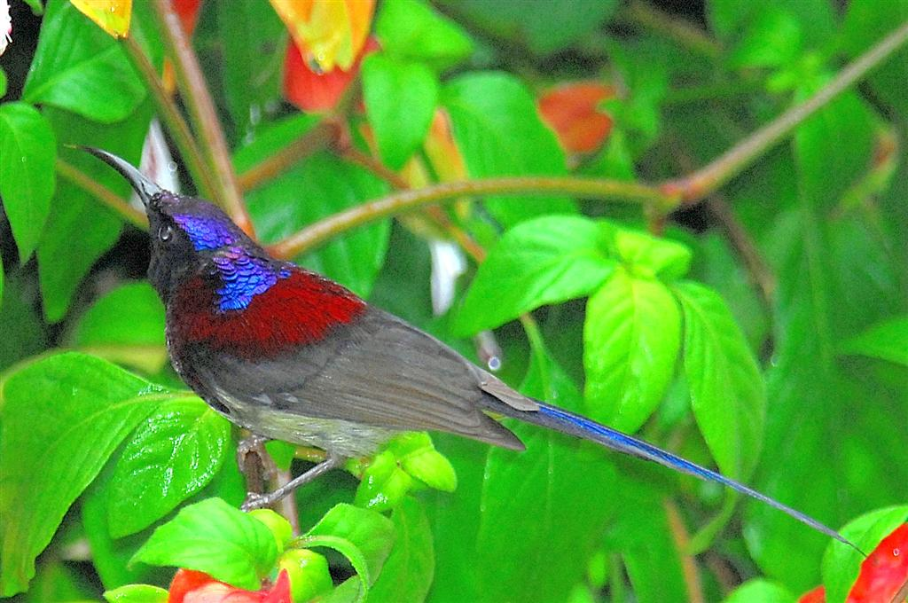 Black-throated Sunbird (Aethopyga saturata), Fraser Hill, Malaysia